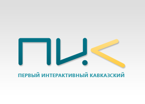 Channel "PIK TV" (First Information channel of the Caucasus), broadcasts in Russian from Georgia. Channel logo from 2011 to 2012 year